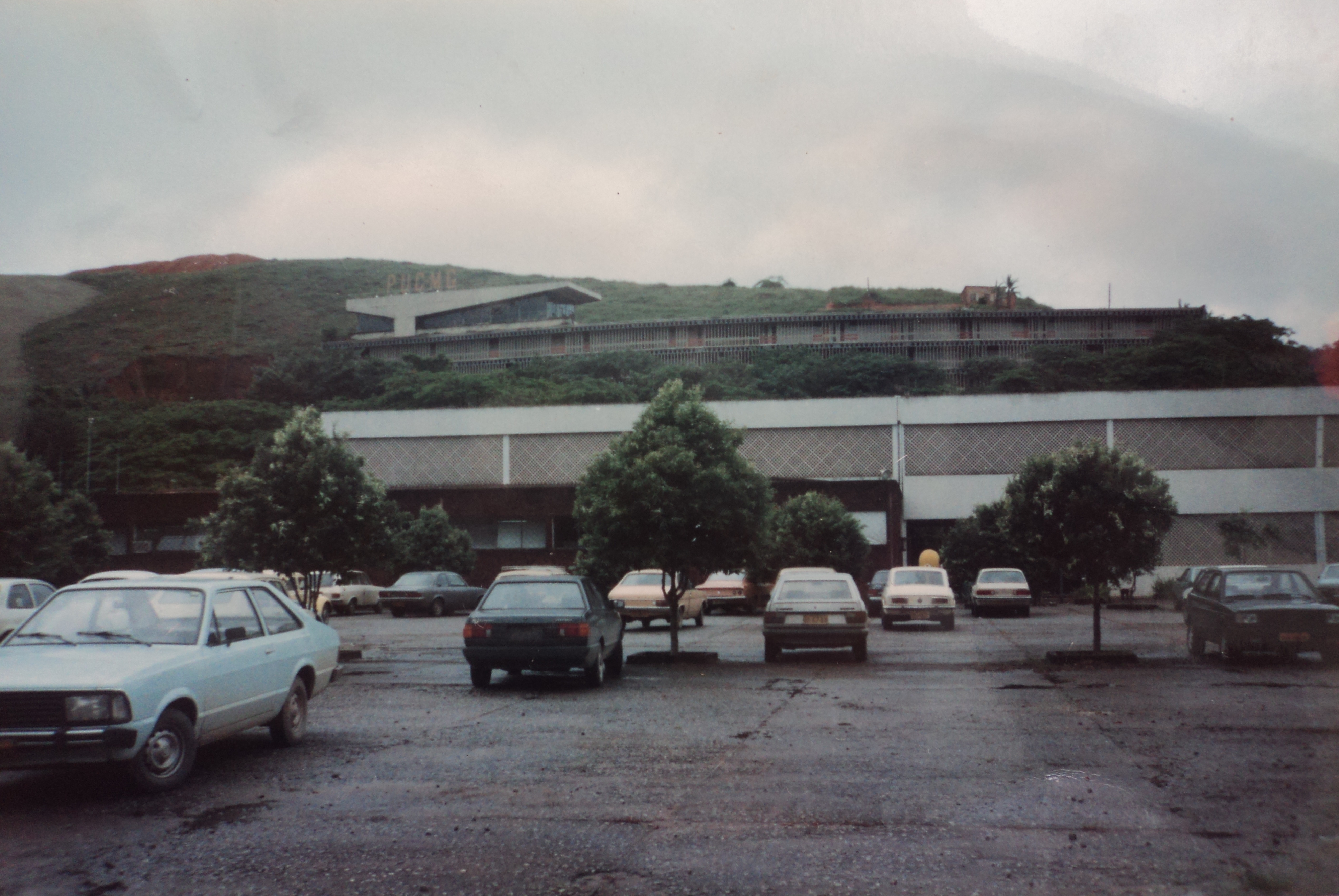 View of the campus of Pontifical Catholic University of Minas Gerais (PUC MG) — now Centro Universitário do Leste de Minas Gerais (Unileste) — in the beginning of the 1990s, in Coronel Fabriciano, Minas Gerais, Brazil.